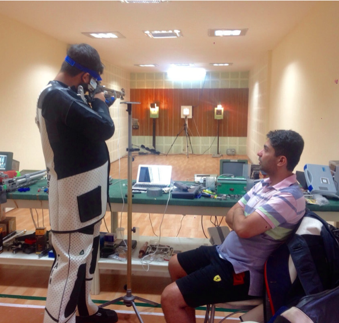 Abhinav Bindra Coaching Pushan Jain